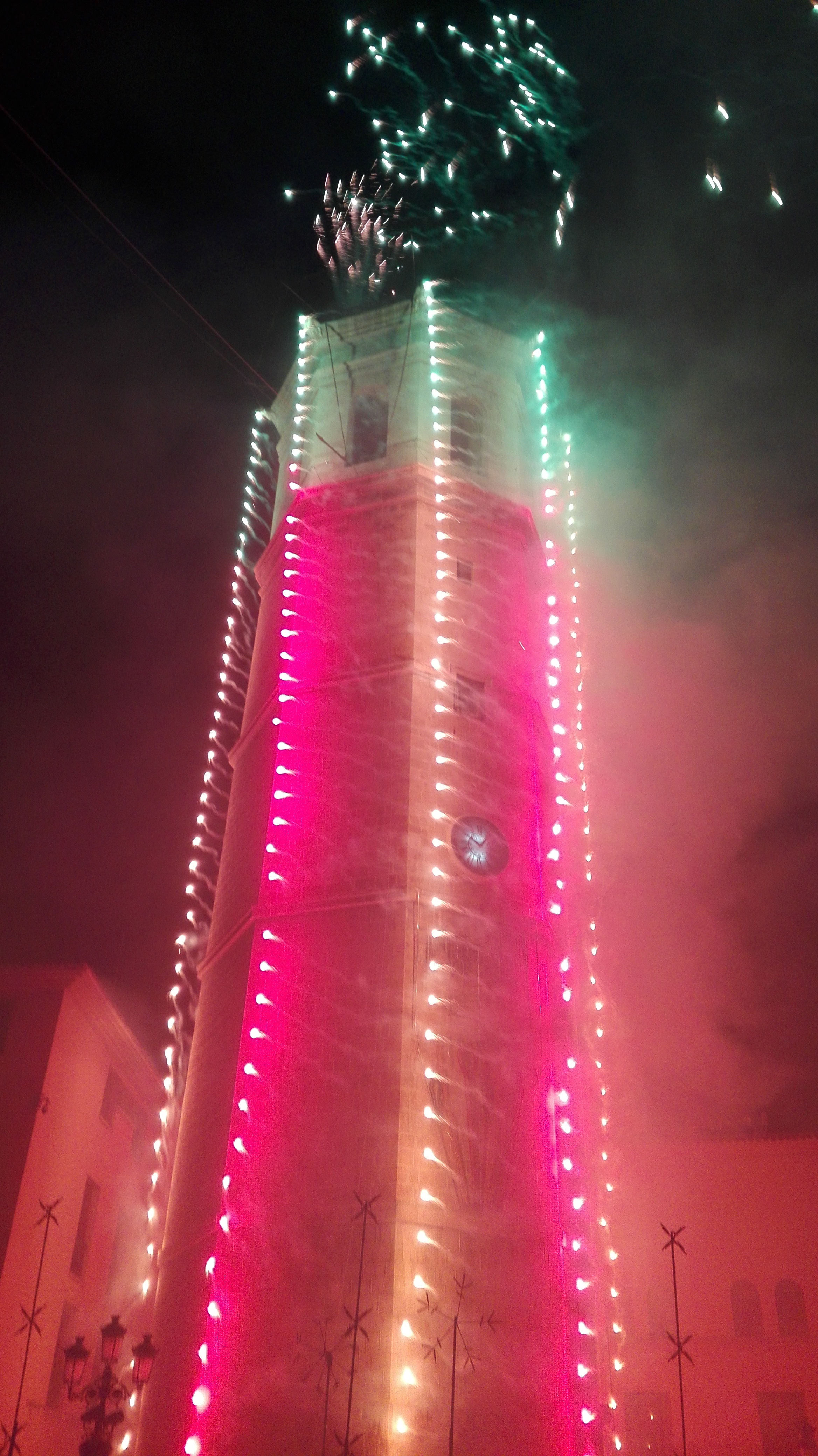 "Enfarolà del Campanar" who take place saturday 27 of February, 2016, the first day of Magdalena festival in Castelló de la Plana, Spain.